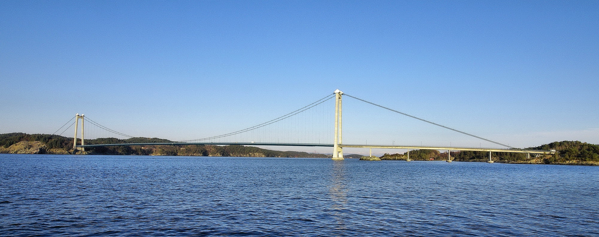 Stord Bridge. Taken from from a small, sheep roamed islet, accessible by foot at low tide, north-west of Nautøyo.